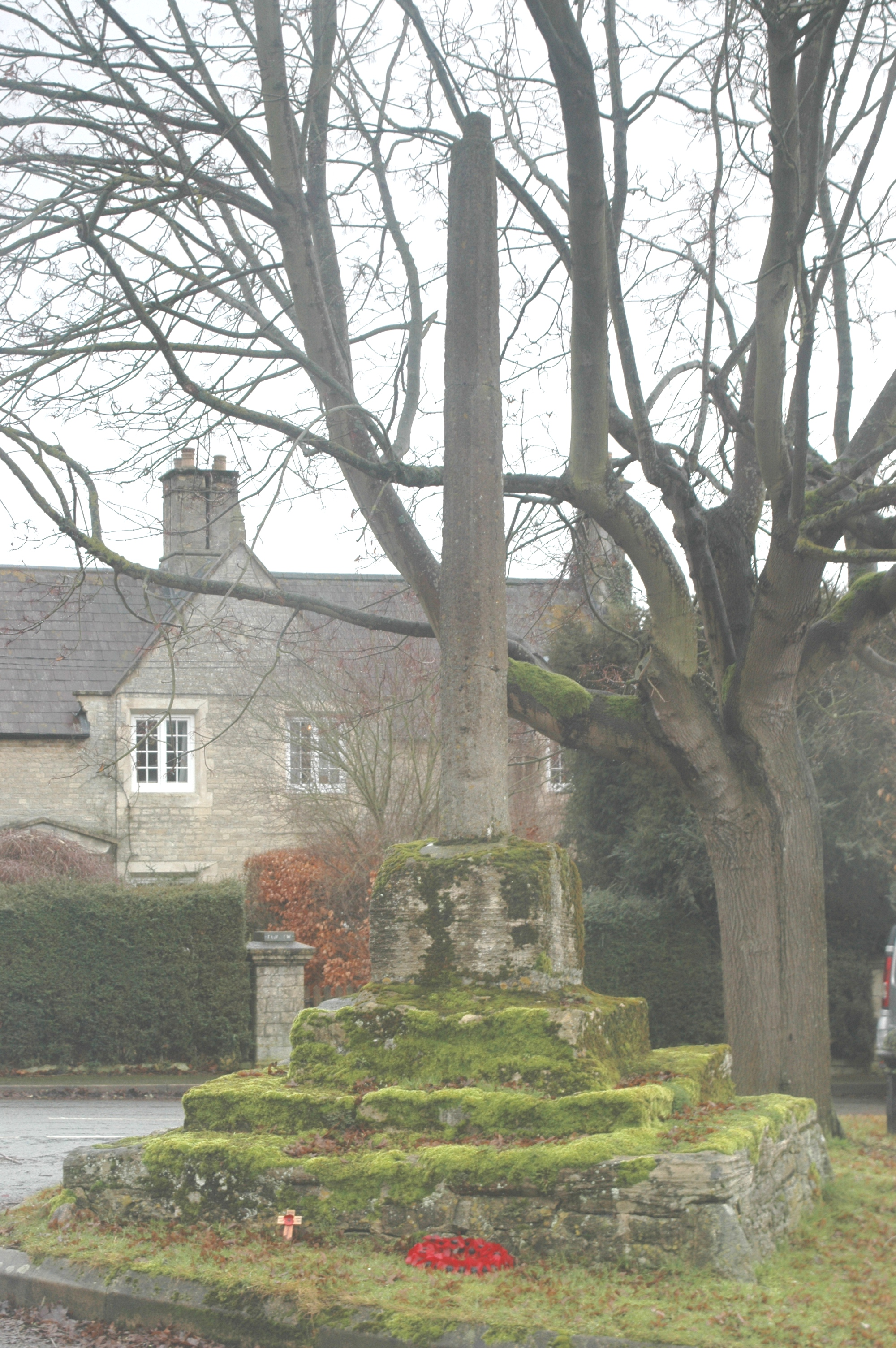 Base and shaft of Mediæval village cross in Bourton, Vale of White Horse, Oxfordshire (formerly Berkshire)